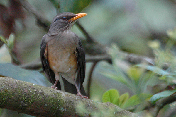 Uganda African thrush (Turdus pelios)